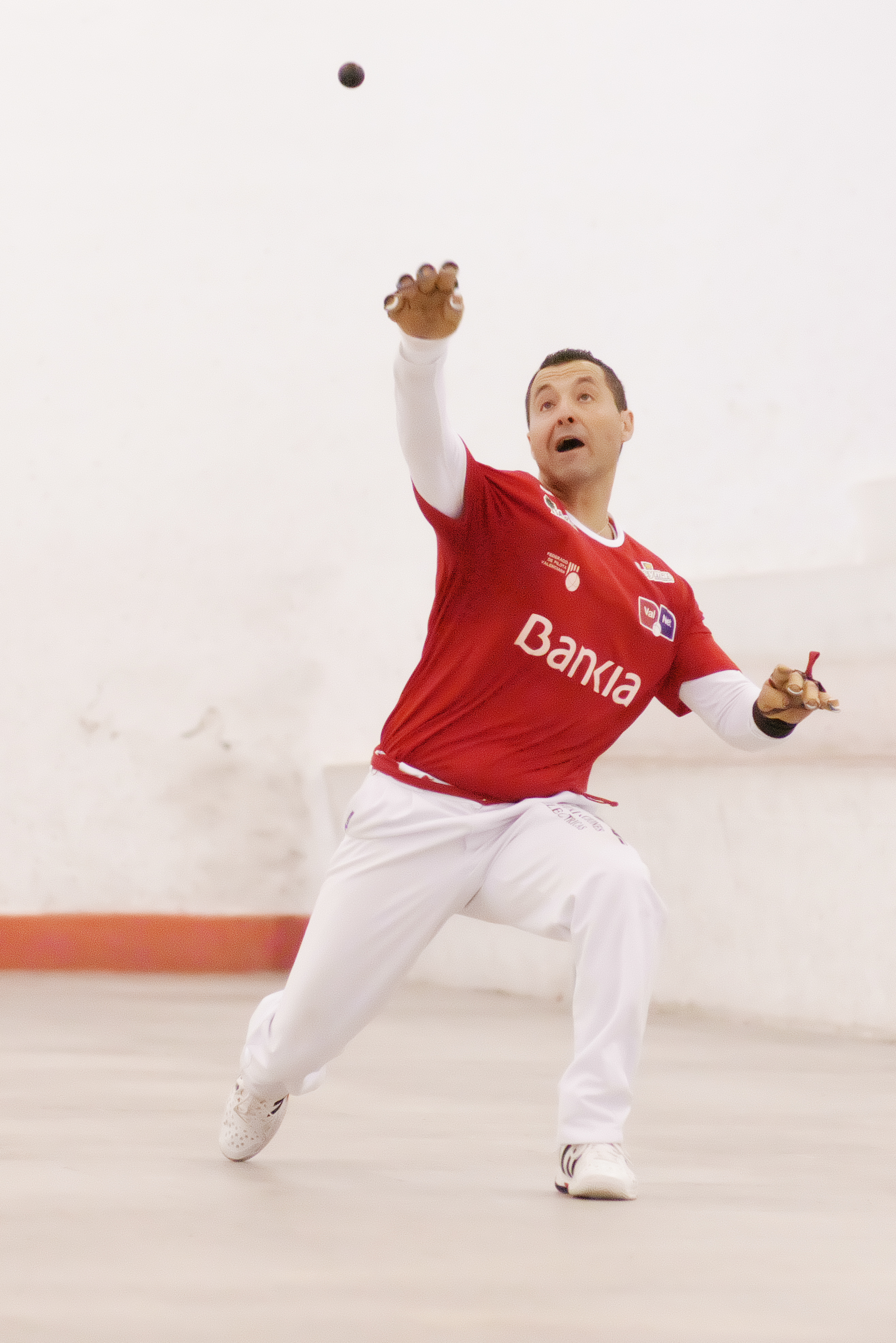 Valencian pilotari Dani de Benavites during a league match in Guadassuar. Aragonés: o pelotaire valencián Dani de Benavites en o trinquet de Guadassuar.